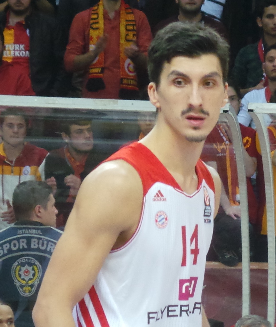 Nihad Đedović vs GS